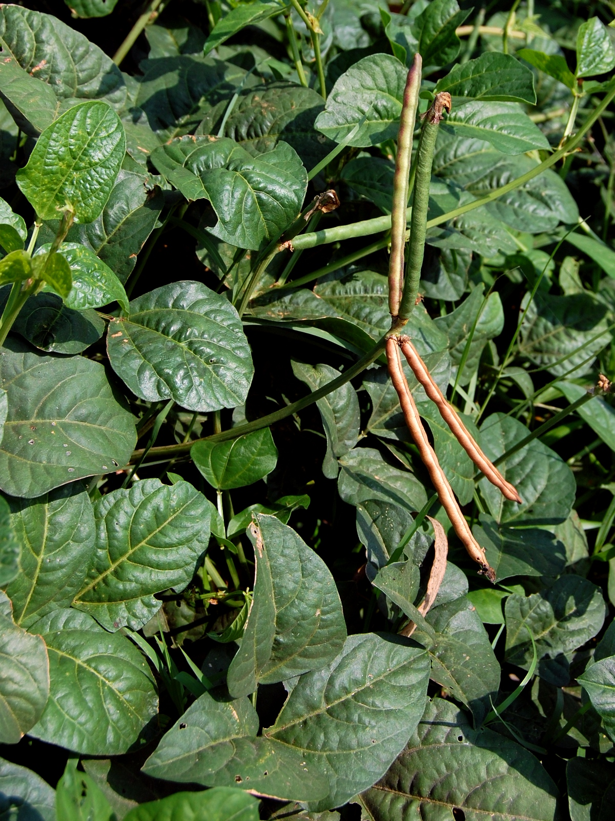 Cowpea Vigna unguiculata cultigroup Unguiculata, planted in Lumajang, East Java, Indonesia. Pods and leaves.